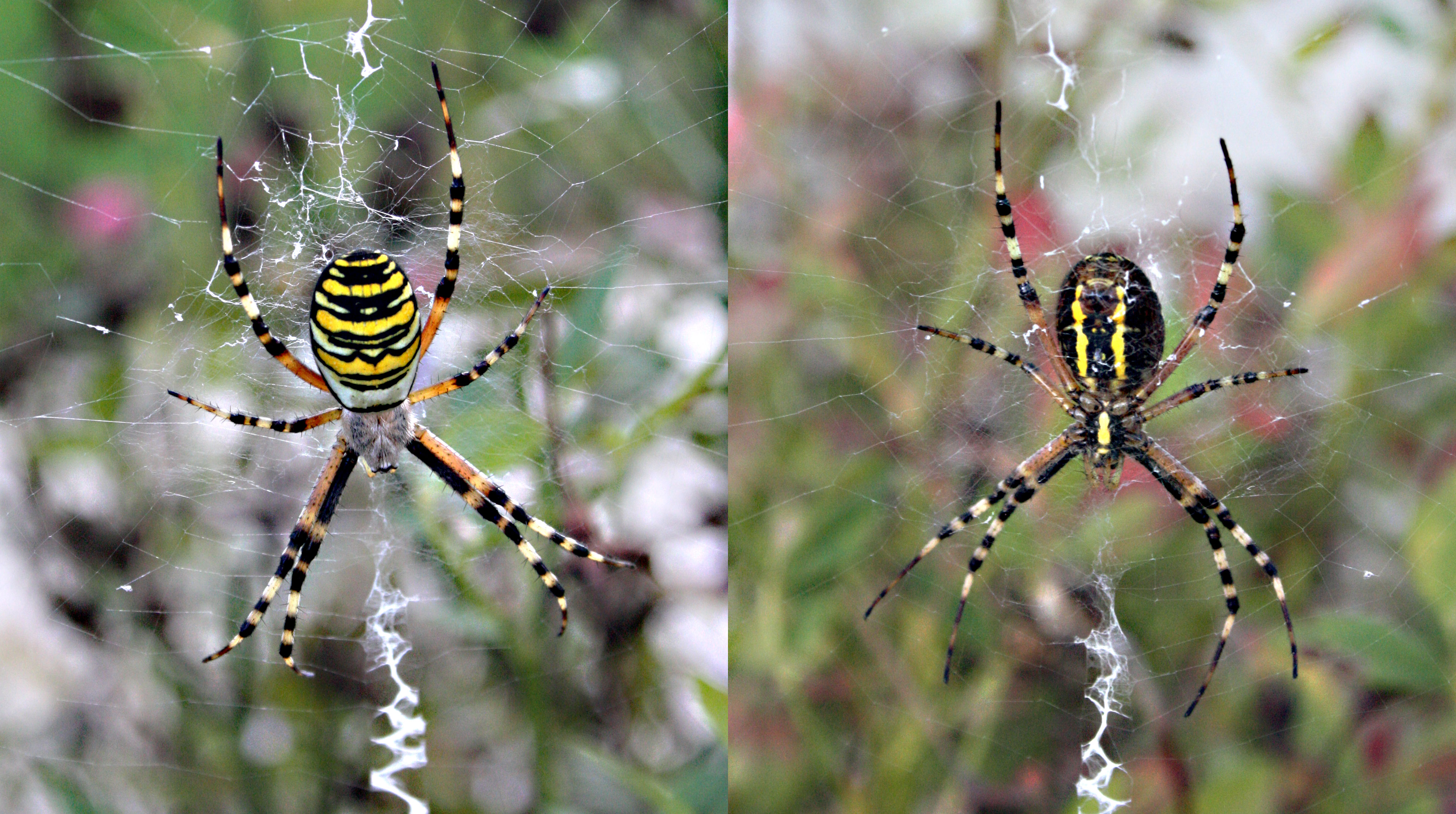 Argiope bruennichi spider, view from above and below